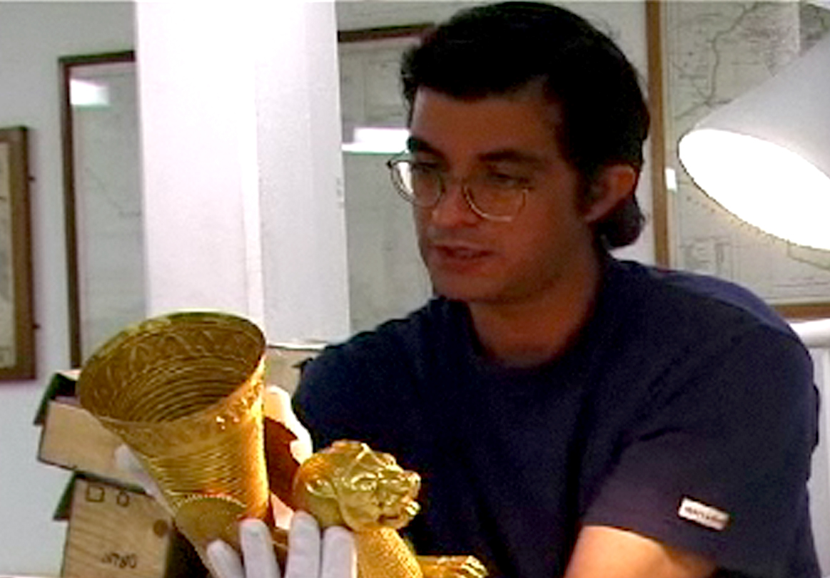 Shahrokh Razmjou holding an Achaemenid golden rhyton in the British Museum.